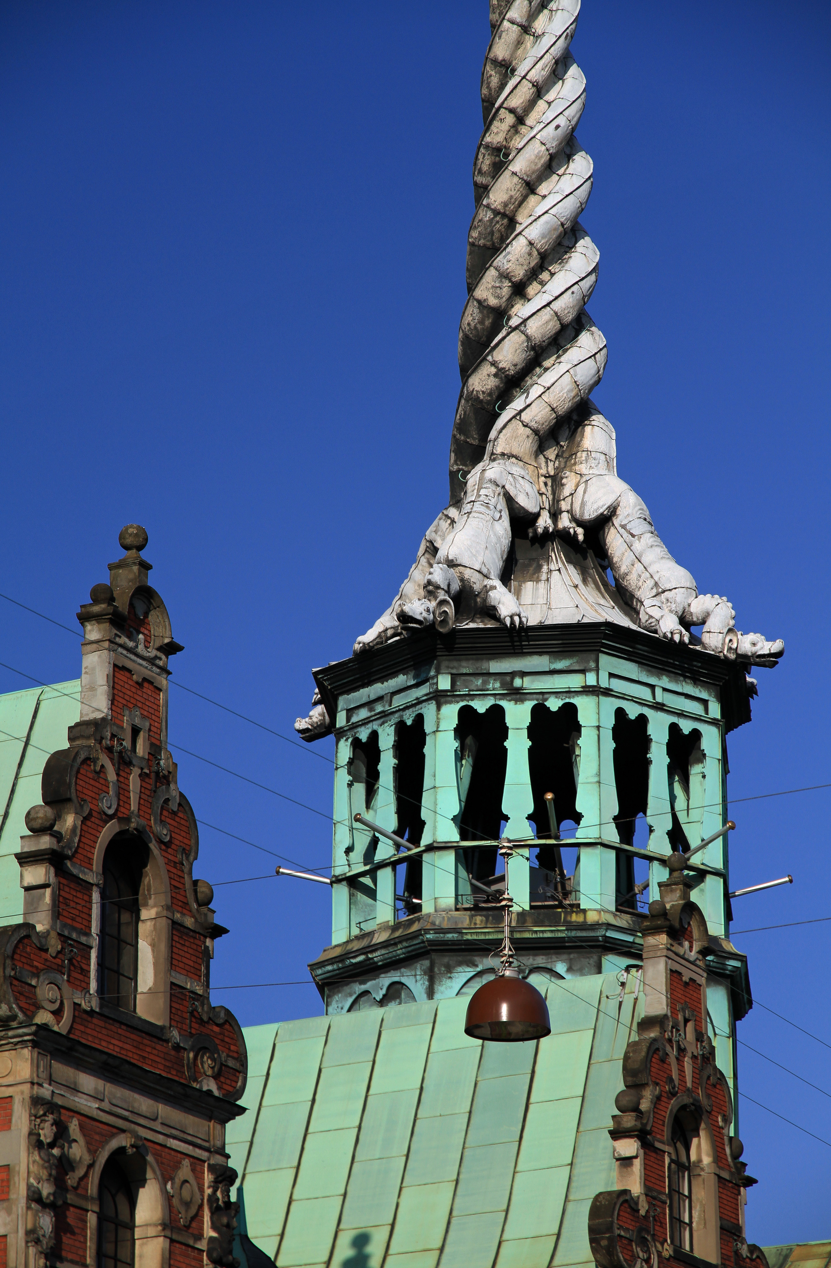 Details of the spire from the Copenhagen stock exchange building (Børsen).